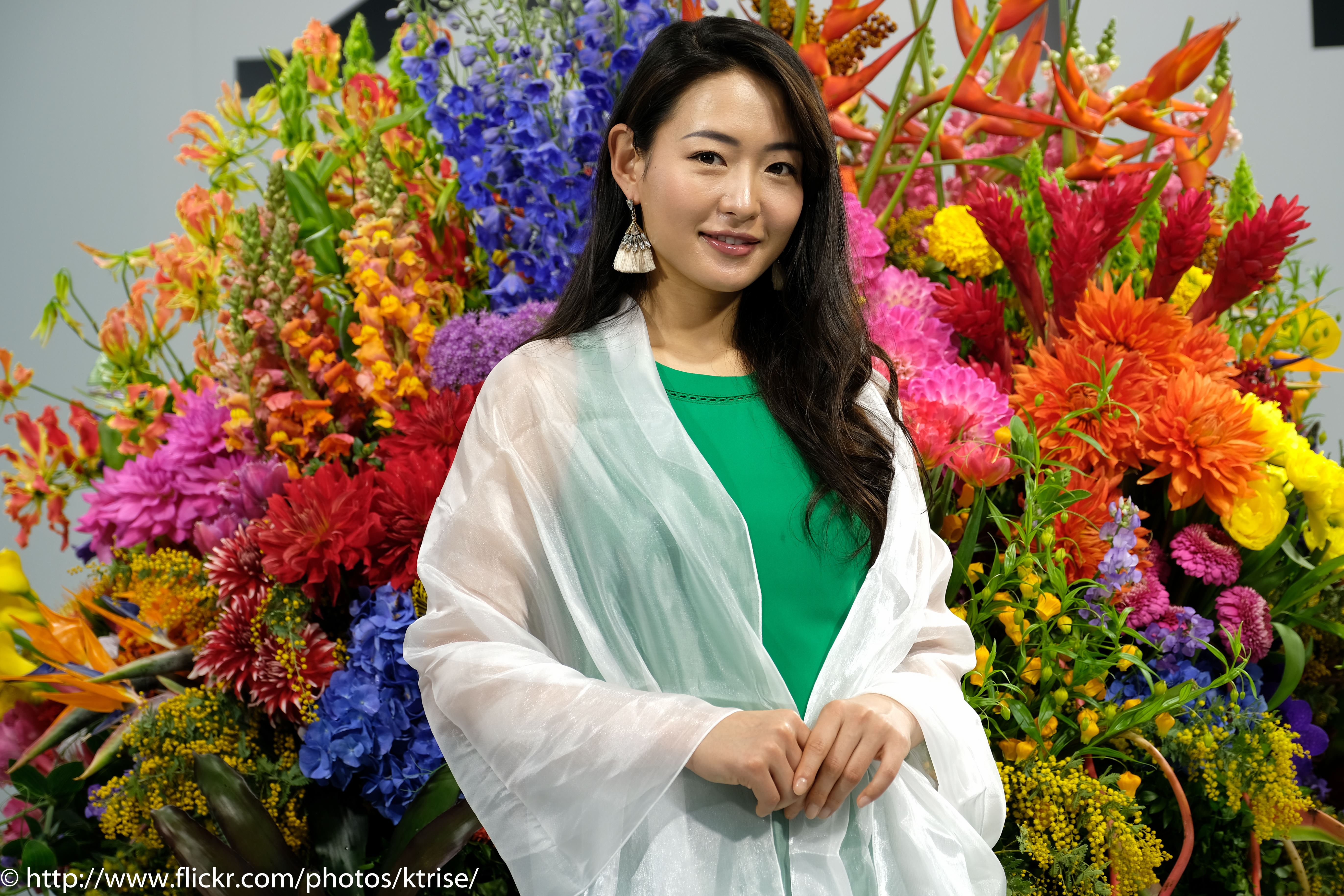 Film Symulation:STD